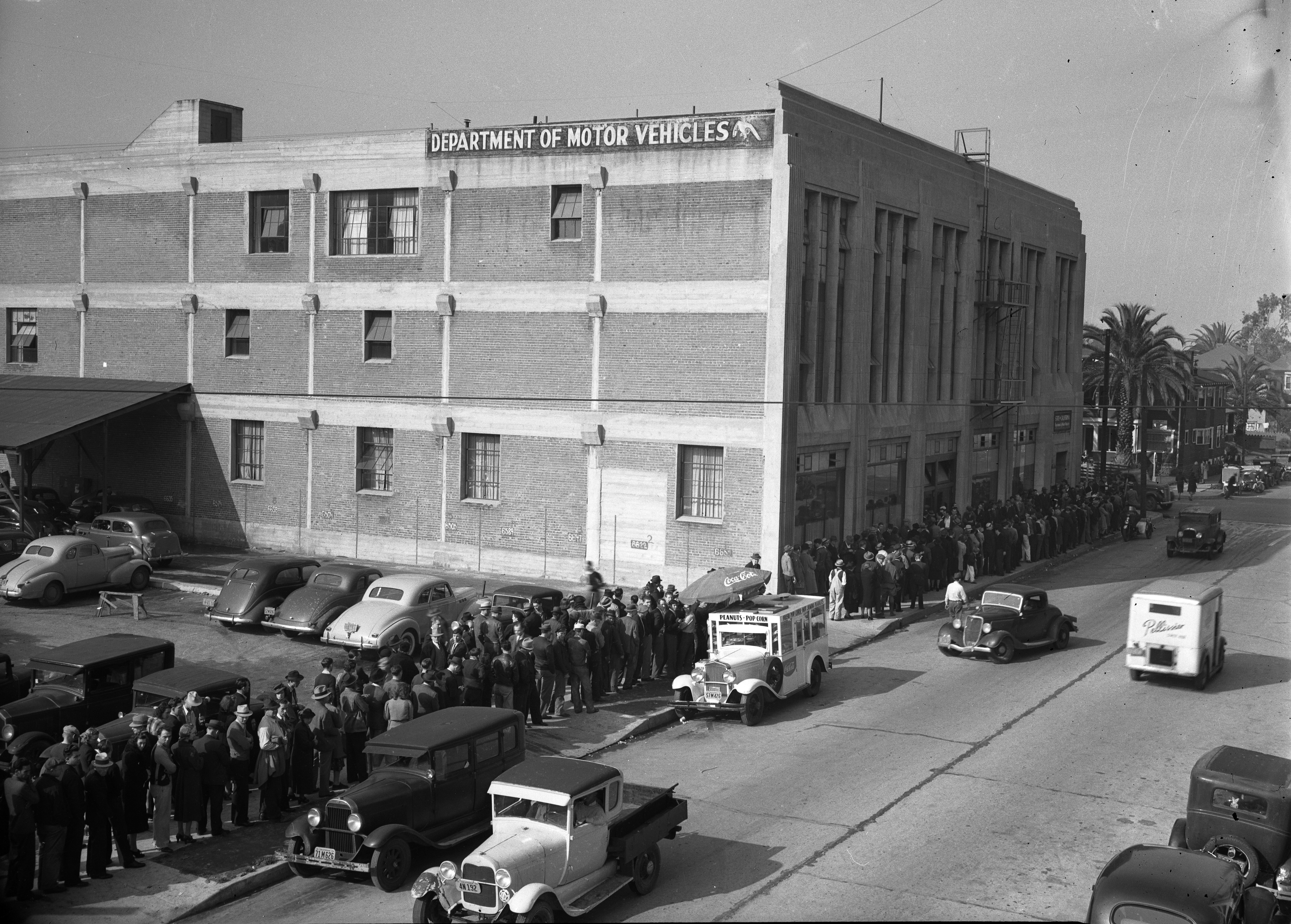 Title: Long line of people standing outside Los Angeles Department of Motor Vehicles building waiting for 1940 automobile licenses